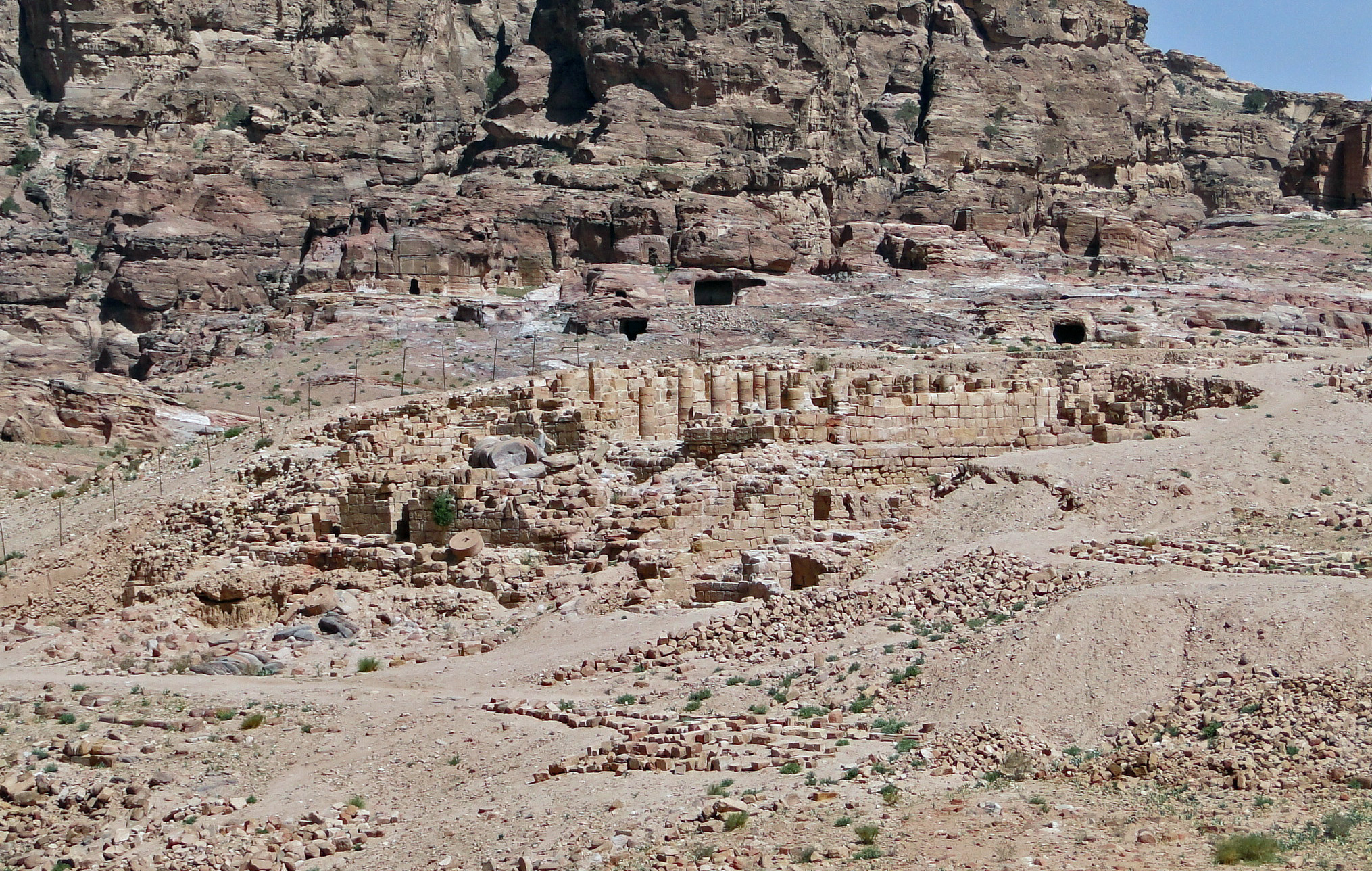 The Temple of Winged Lions, Petra, Jordan